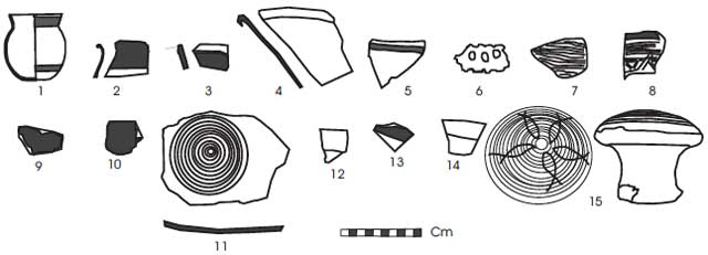 sherds